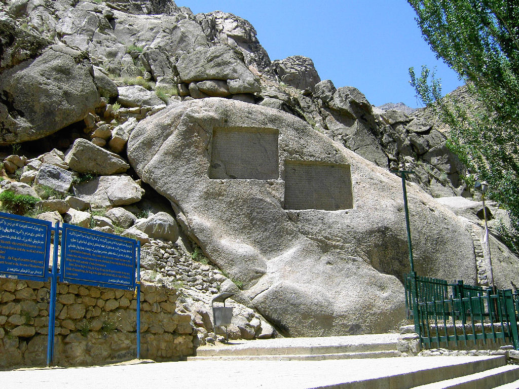 Ganjnameh inscriptions.